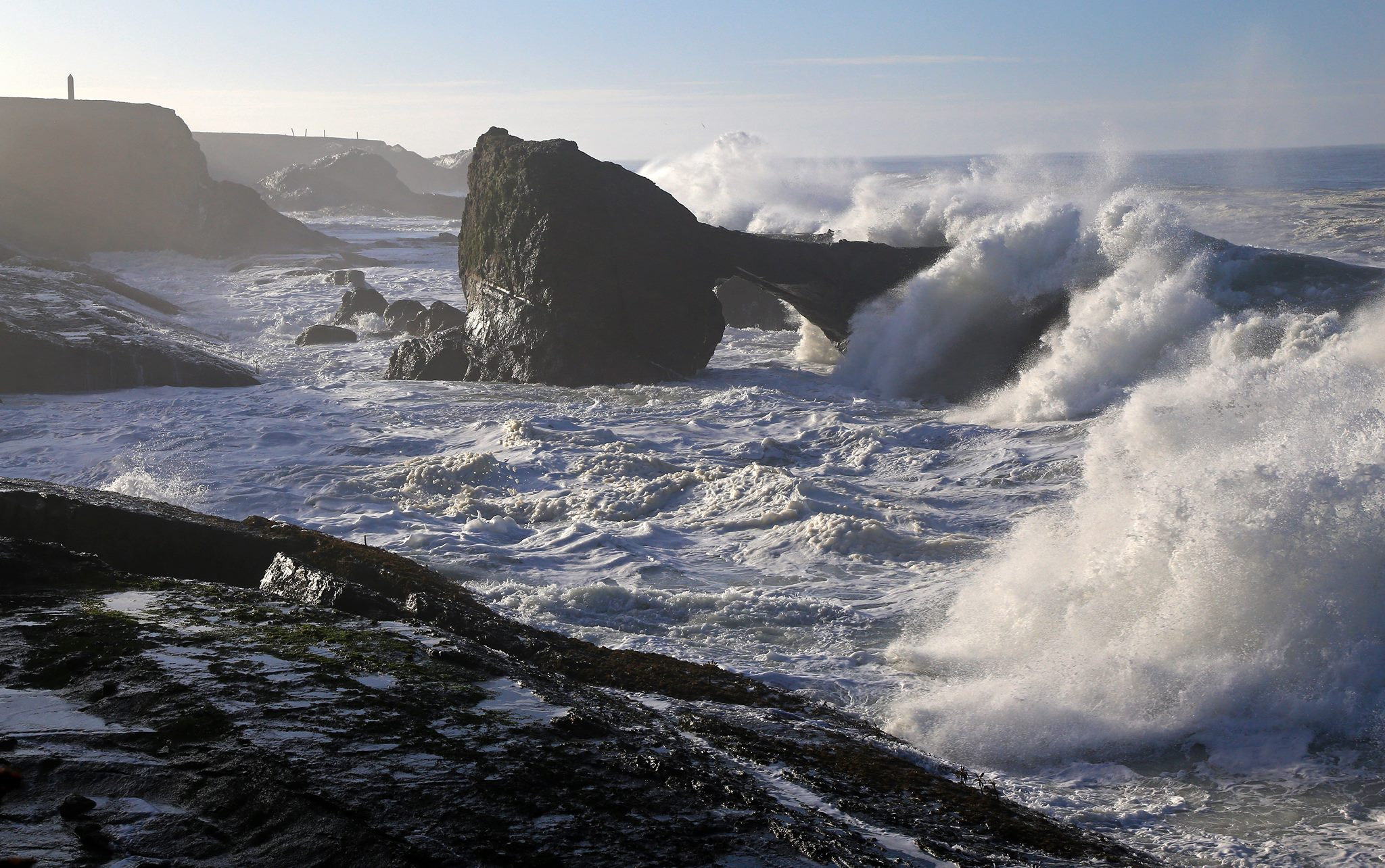 Join us for a series of guided nature hikes along the coastal trail overlooking the Pacific Ocean at the Point Arena-Stornetta Unit of the California Coastal National Monument this fall.